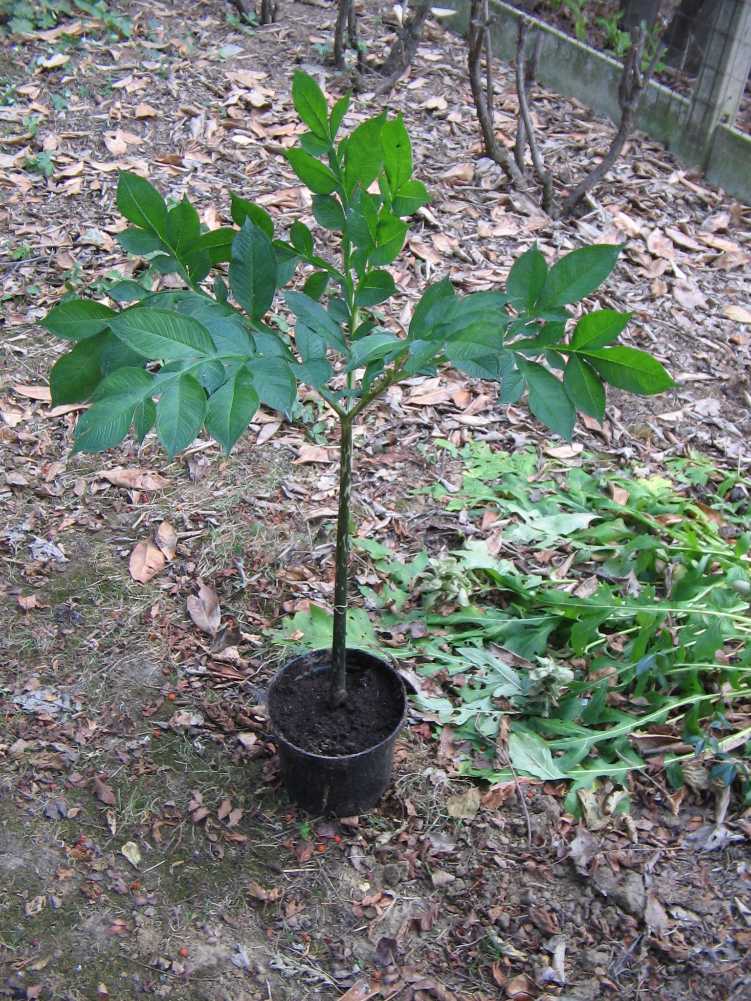 Amorphophallus napalensis